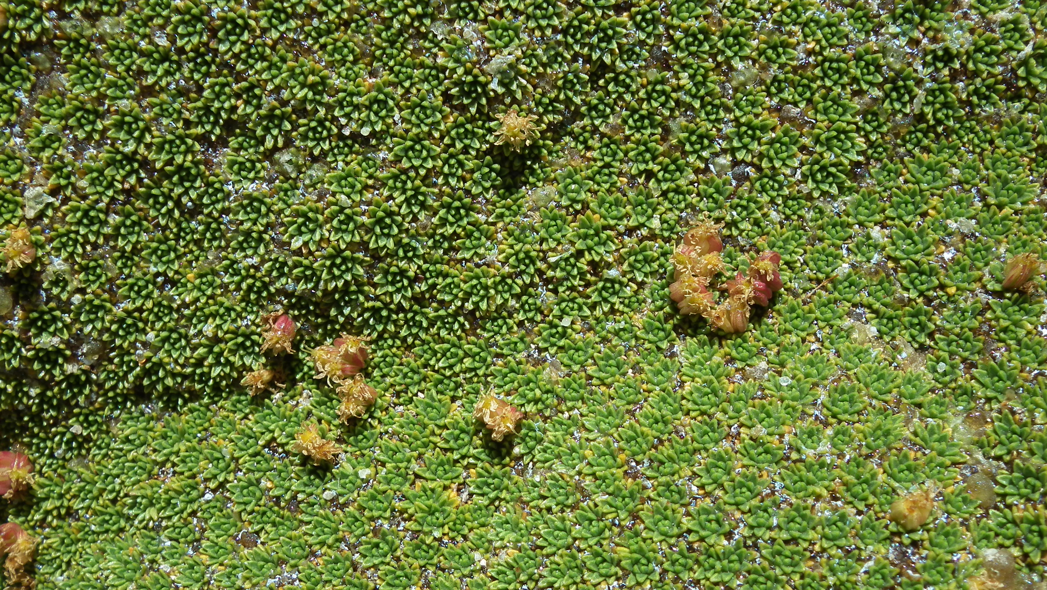 Yareta with flowers, Vale de las Rocas, Bolivia